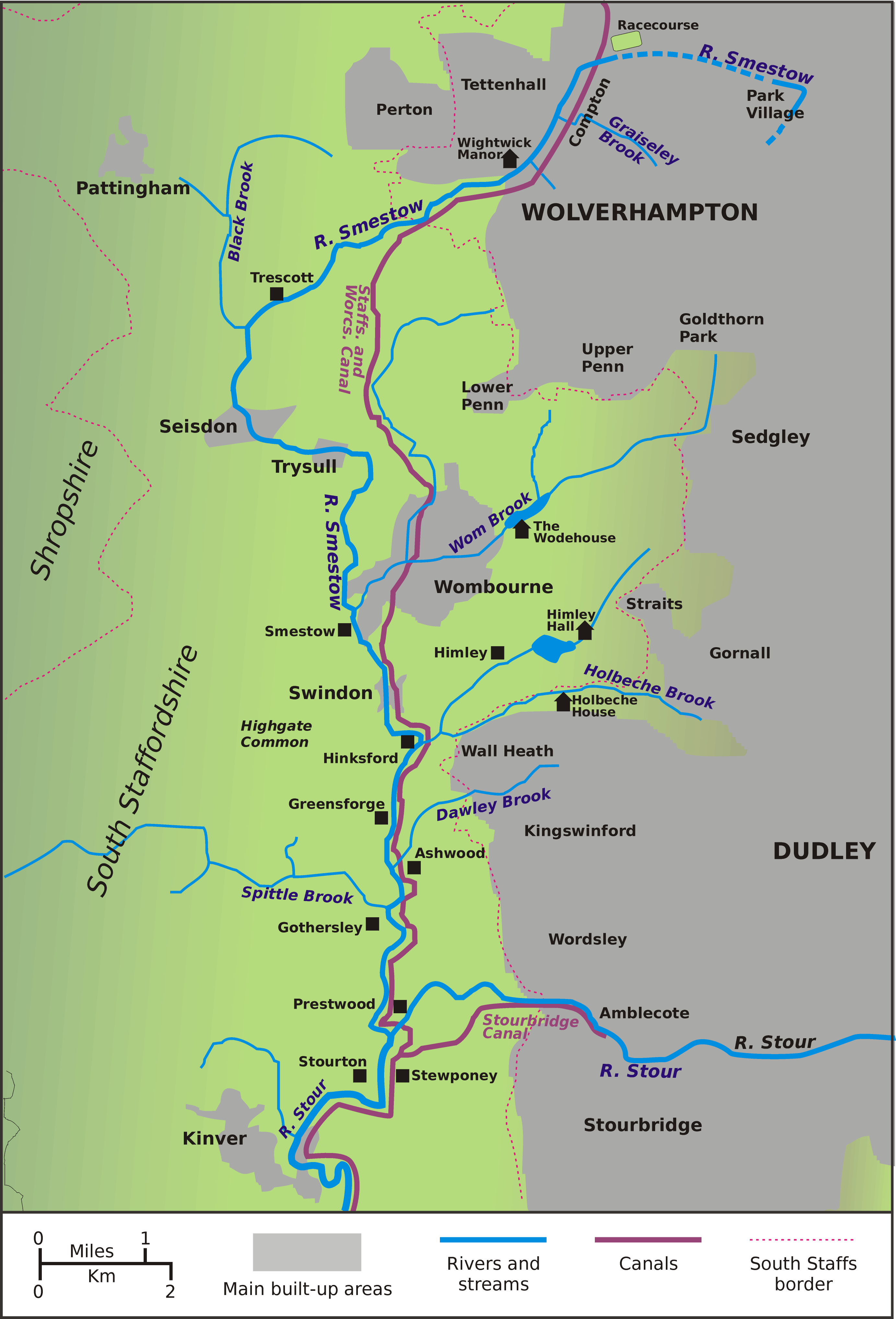 Sketch map of the course of the River Smestow, West Midlands/South Staffordshire, England, UK